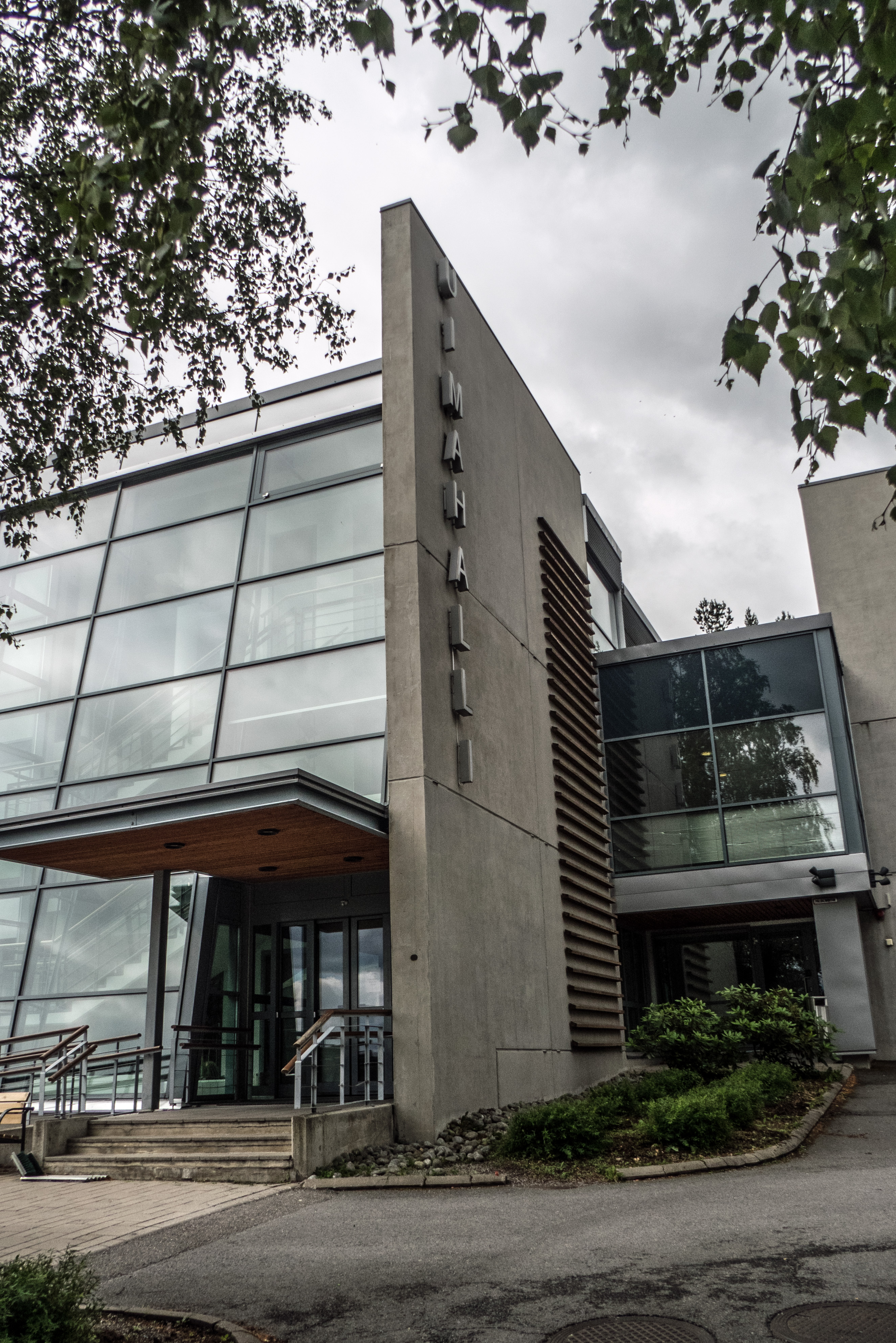 Entrance to indoor swimming pool in Salo sports park